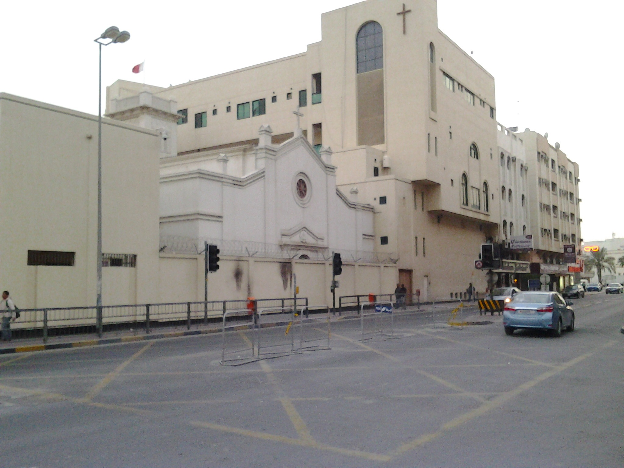 Sacred Heart Church in Manama (Bahrain)